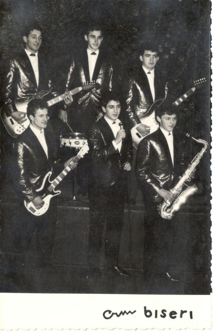 "Black Pearls", sixties of the last century